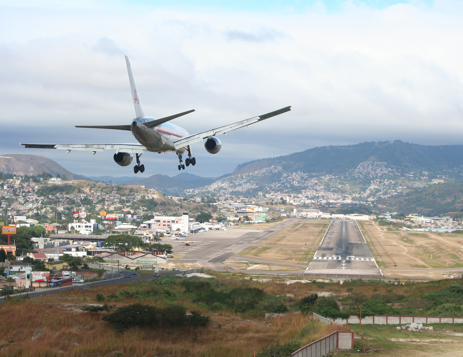 Boeing 757 landing at Toncontín International Airport (TGU)757 landing at tgu again